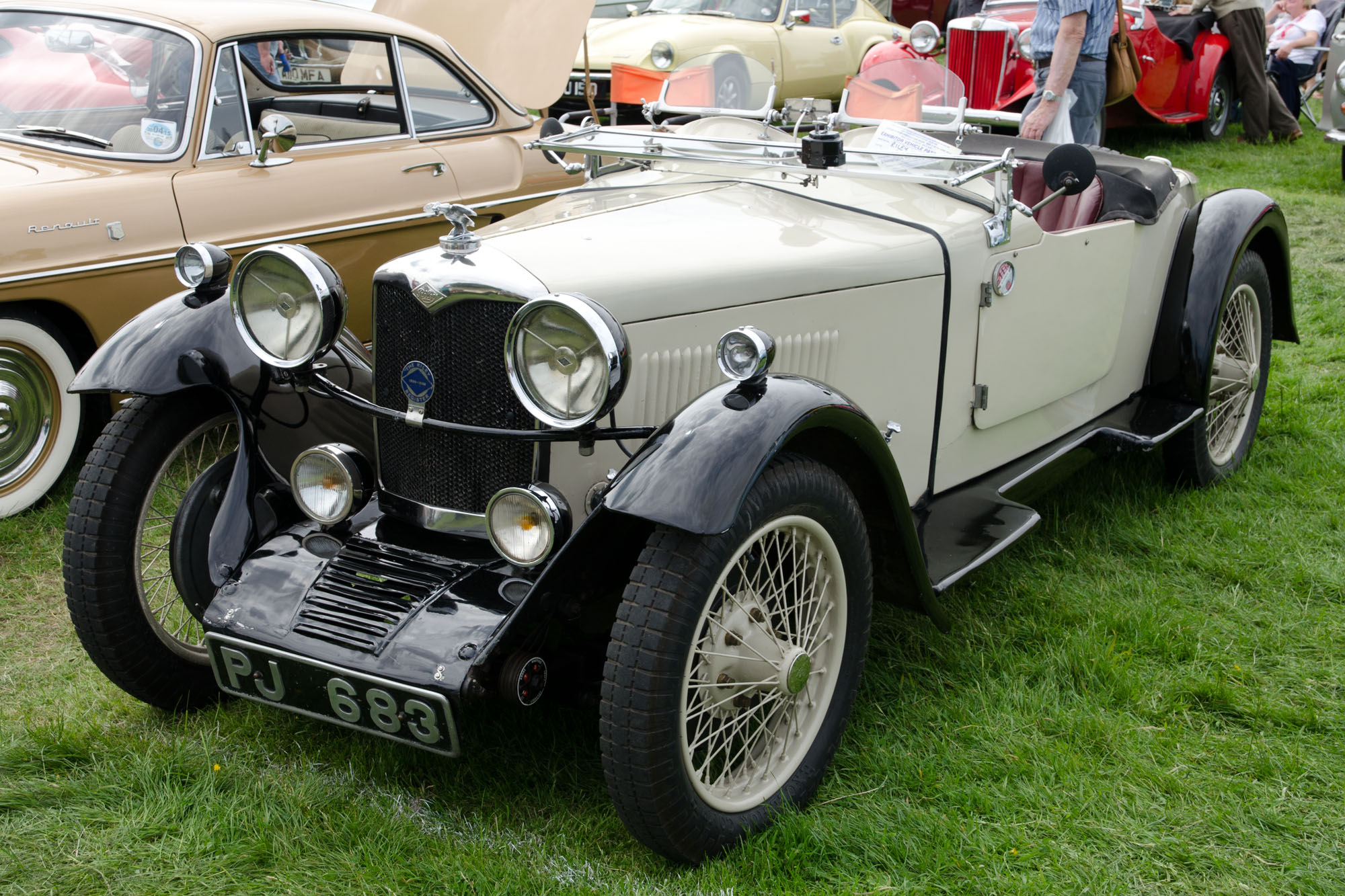 1931 Riley Nine Gamecock open 2-seater